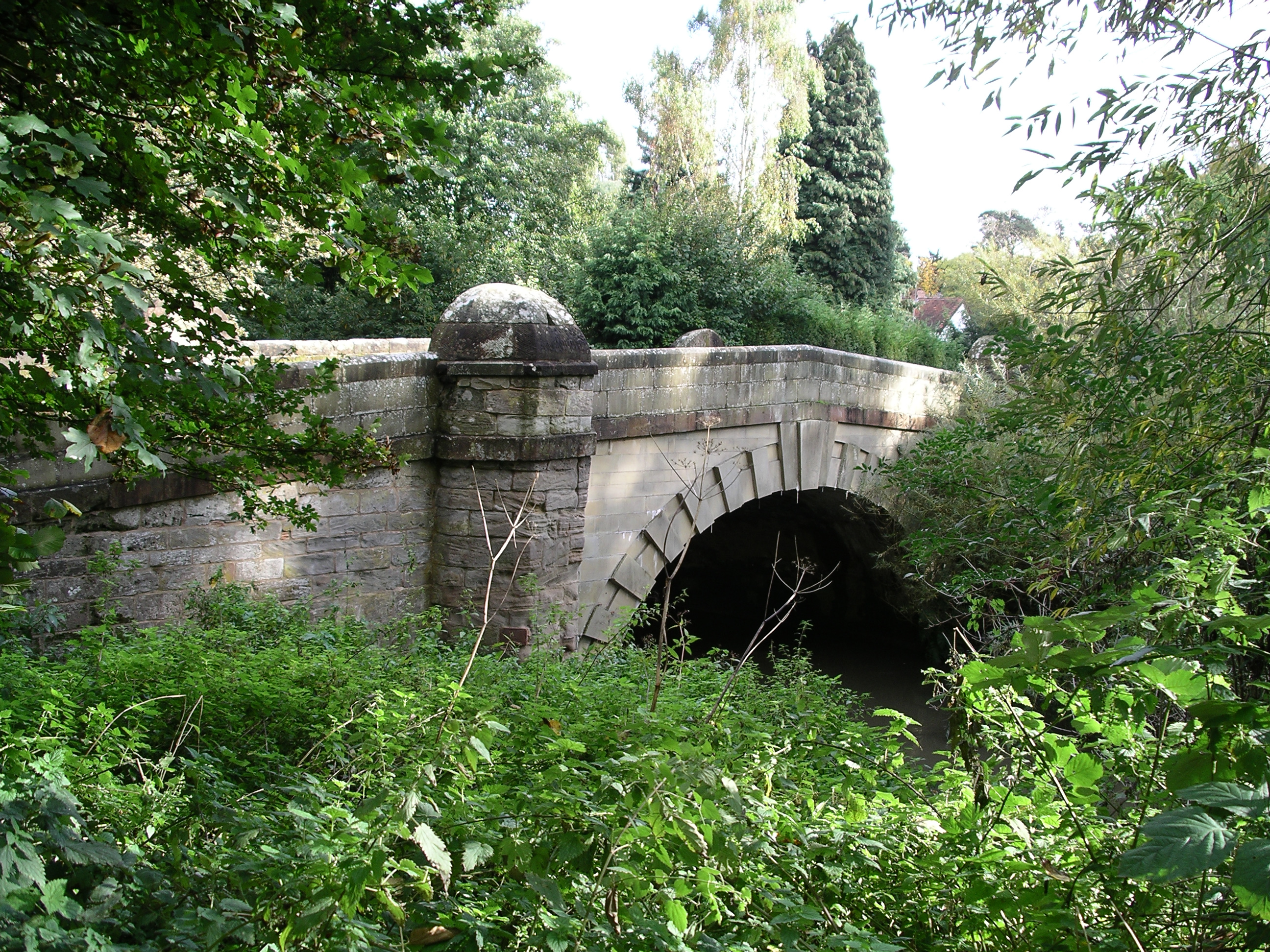 Photo taken on 19 October 2006 showing the arch of the road bridge over the River Sherbourne in Whitley, Coventry, England.